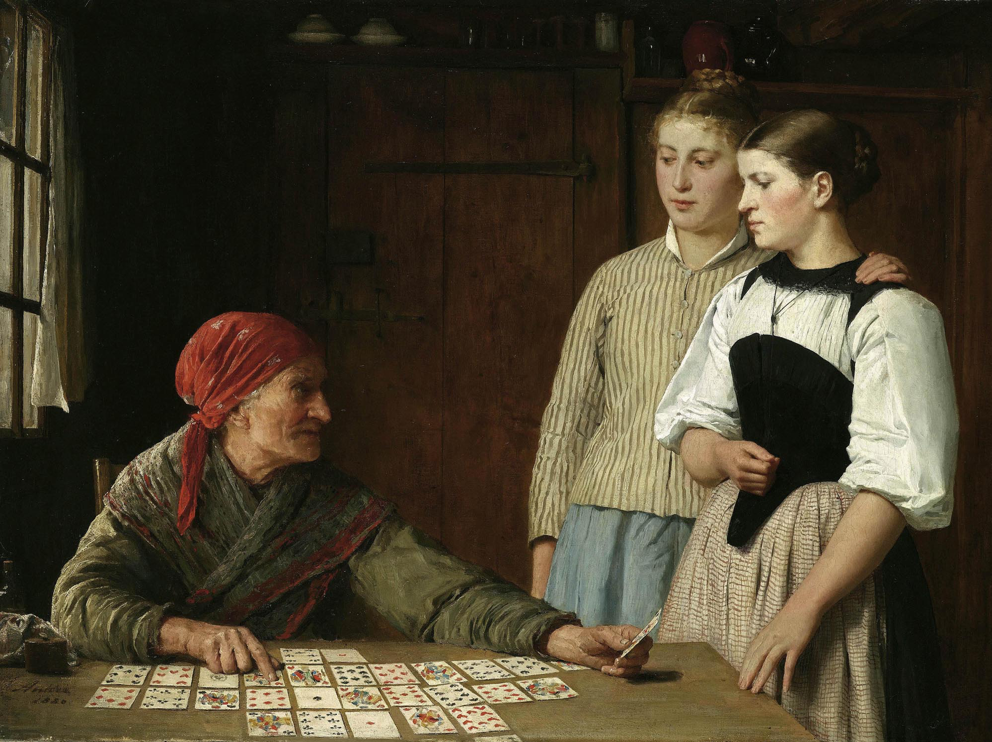 see source link